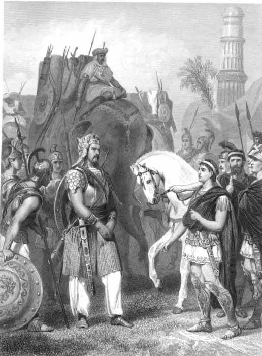 "Surrender of Porus to the Emperor Alexander," an engraving by Alonzo Chappel, 1865 Source: ebay, June 2001